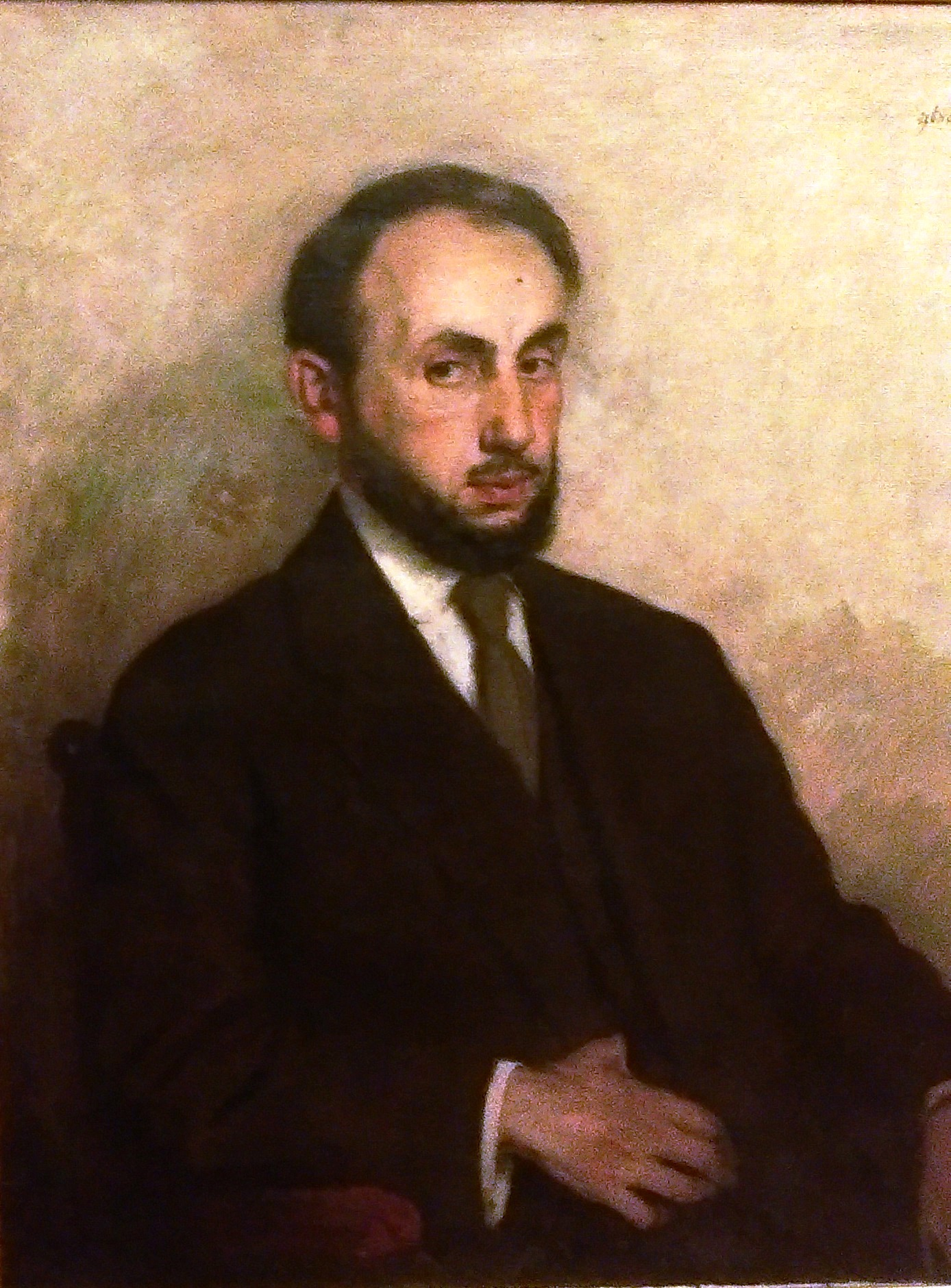 Portrait of the bulgarian literary critic Boyan Penev by Tseno Todorov, 1919